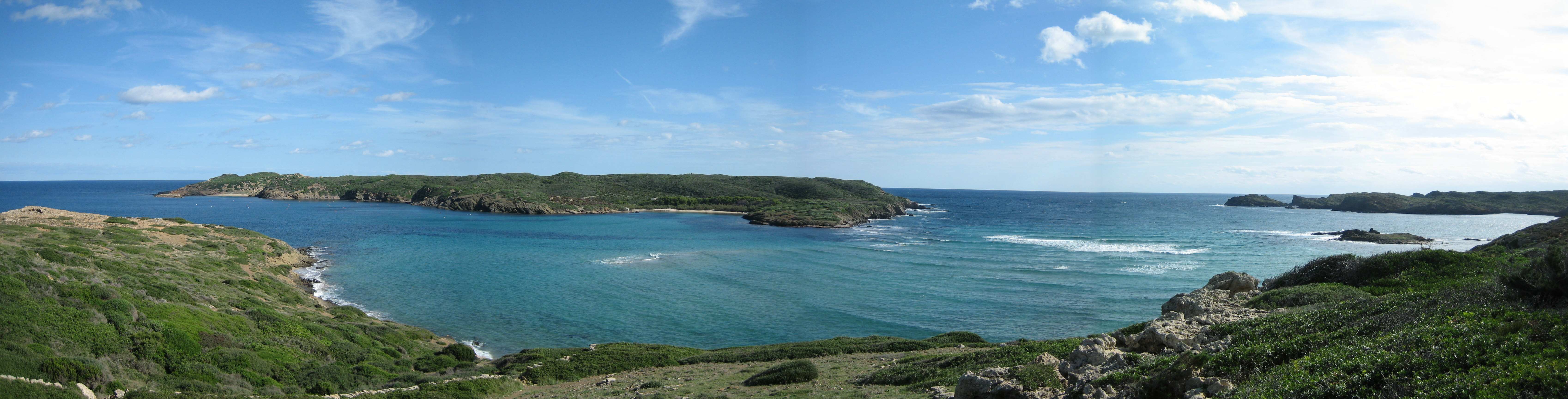 Colom island, Minorca.